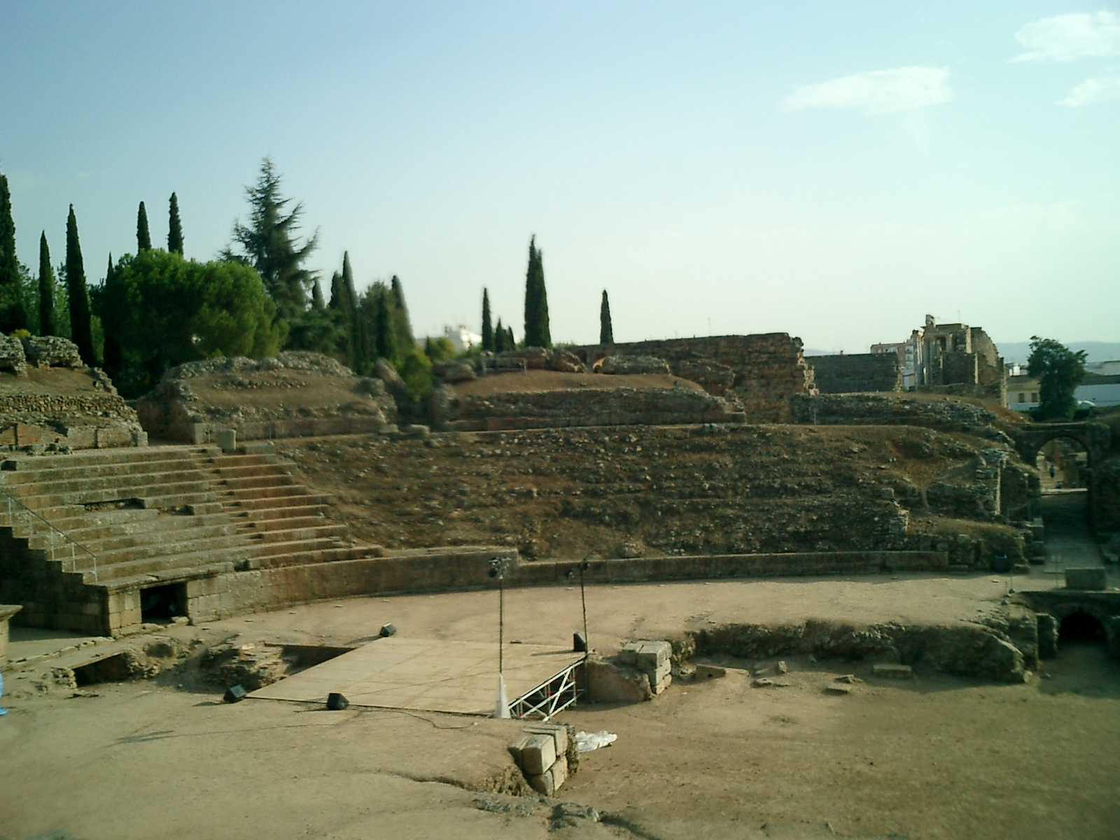 Ancient Roman Amphitheater, Mérida, Spain